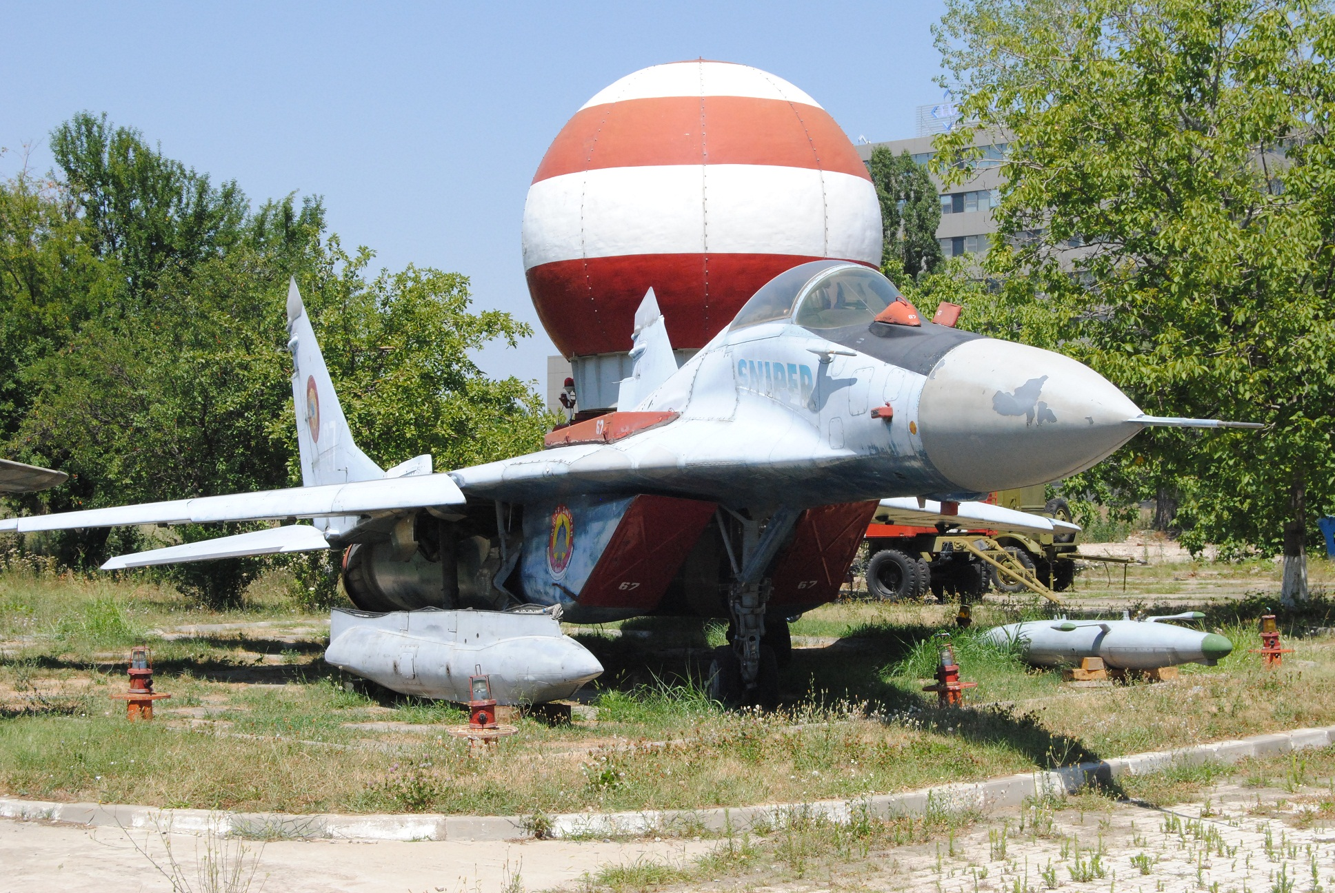 MiG-29 Sniper at the Aviation Museum in Bucharest